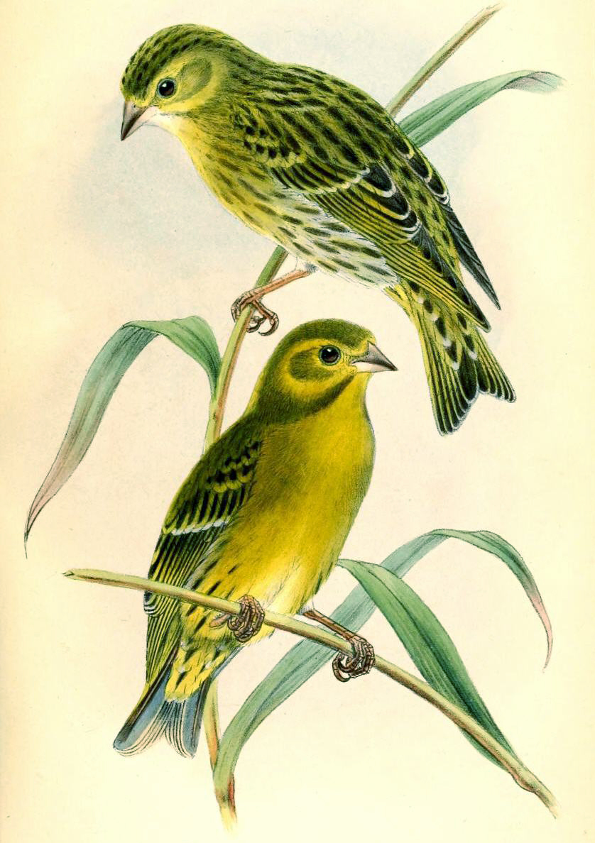 Chrysomitris thibetana = Serinus thibetanus, Tibetan Serin